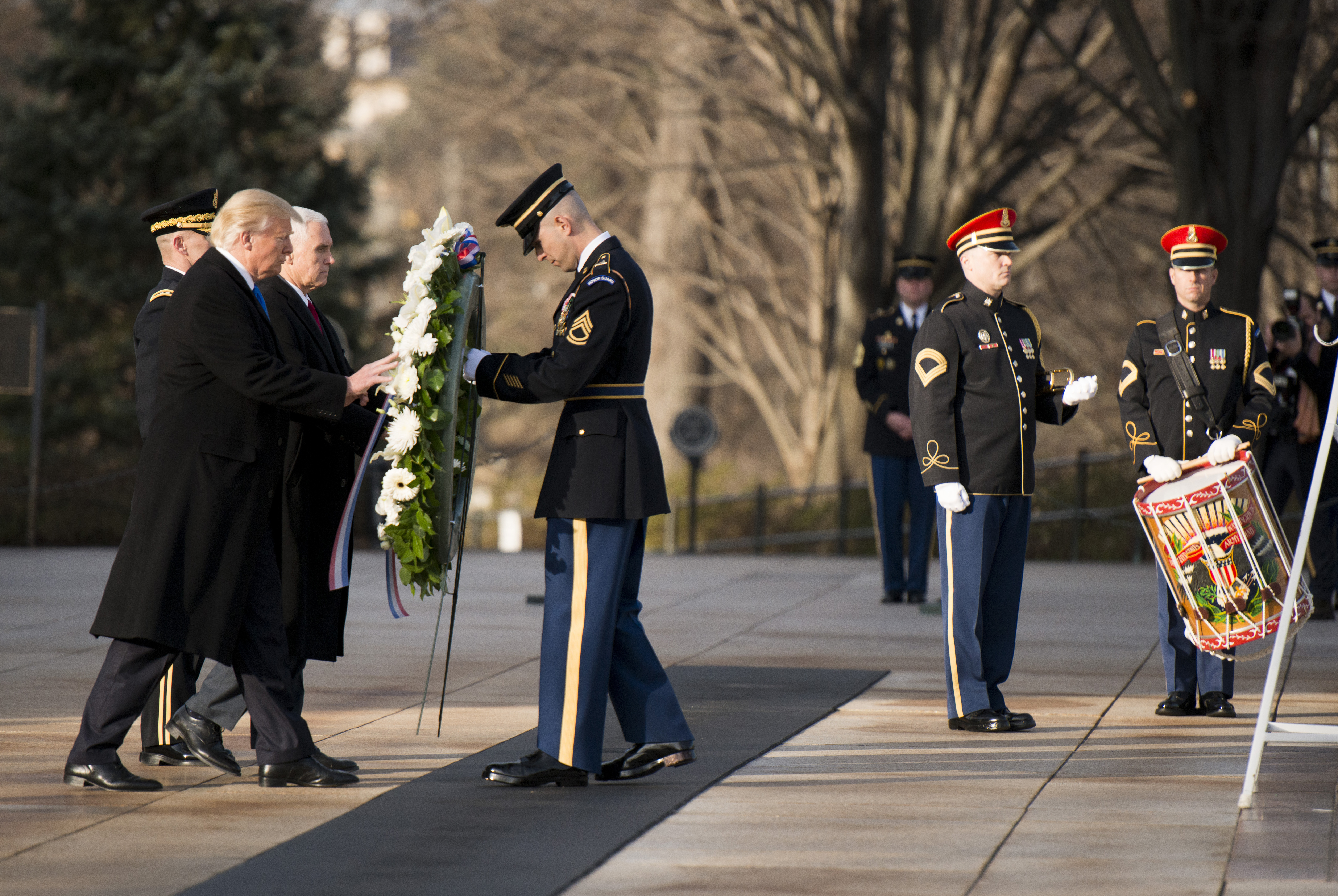 President-elect Donald J. Trump and Vice President-elect Mike Pence place a wreath at the Tomb of the Unknown Soldier at Arlington National Cemetery, Jan. 19, 2017, in Arlington, Va. Trump will be sworn-in as the 45th president of the United States during the Inauguration Ceremony Jan. 20, 2017, in Washington, D.C. (U.S. Army photo by Rachel Larue/Arlington National Cemetery/released)